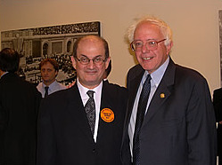 Bernie poses with author Salmon Rushdie at press conference with booksellers and librarians promoting the need to curb section 215 of the USA Patriot Act. (Washington, DC - 9-29-04)